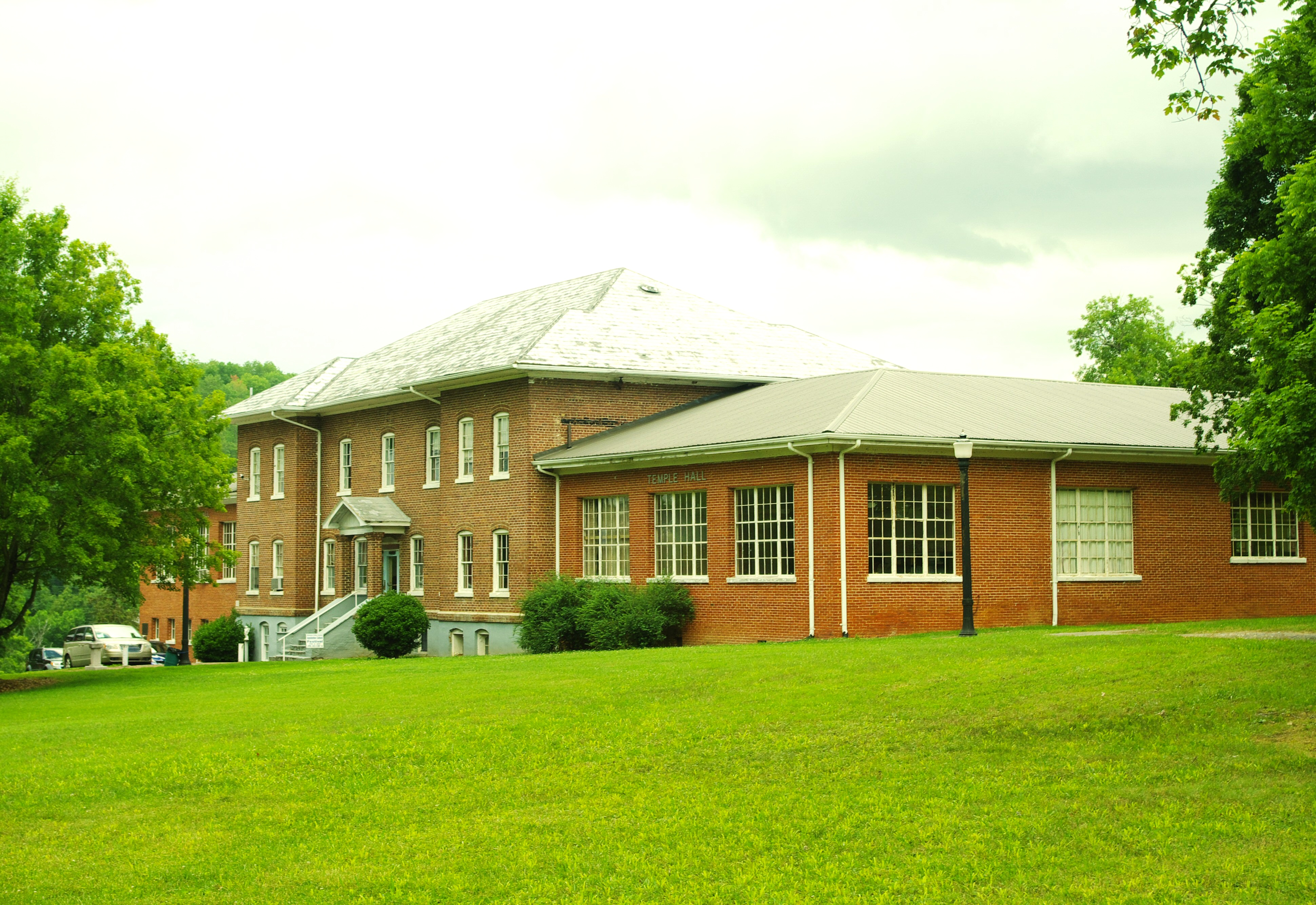 Carnegie-Temple Hall on the Washington College Academy campus in Washington County, Tennessee, United States. The central (or "Carnegie") section was constructed in 1909, while the two wings were added in 1926. The building is now listed on the U.S. National Register of Historic Places as a contributing property in the Washington College Historic District.